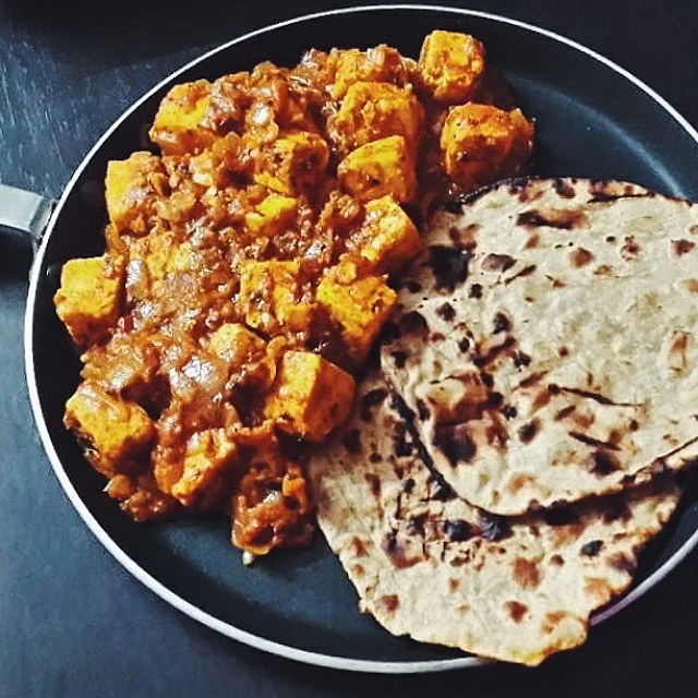 Indian Curry